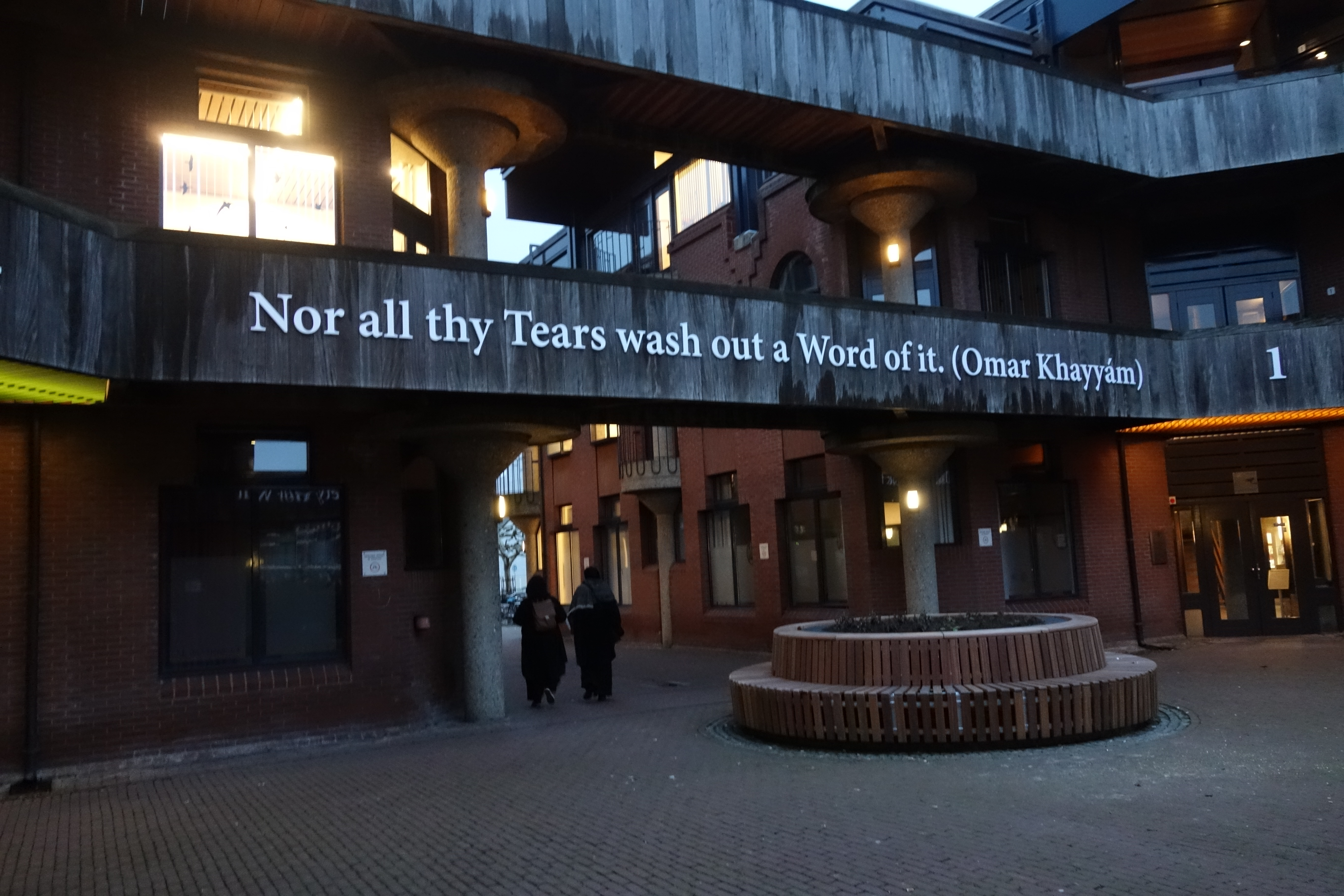 Omar Khayyam: "(...) nor all thy tears wash out a word of it." Faculty of Humanities, Matthias de Vrieshof, Leiden University (the Netherlands)